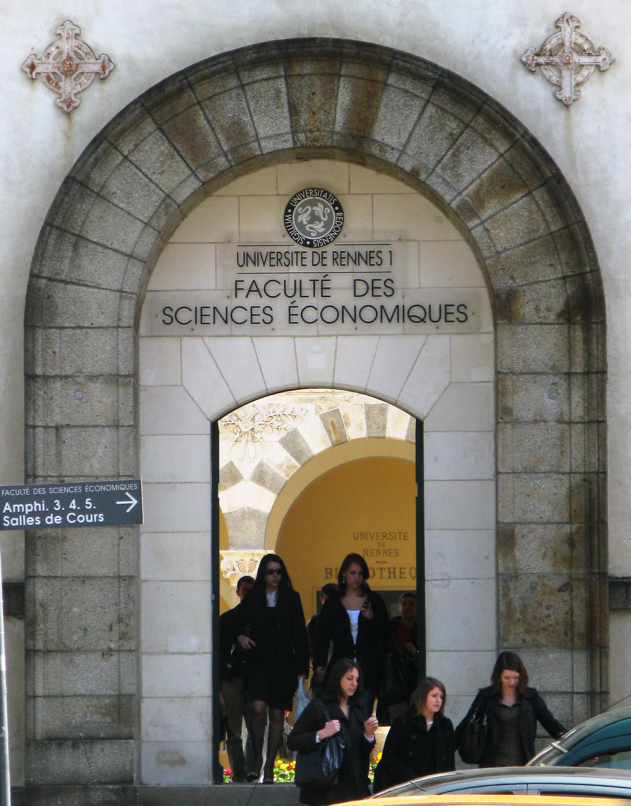 Gate of the economy faculty of Rennes 1 University in Rennes, France. Untils 1967, this building was aslo used by the humanities faculty of the University of Rennes.